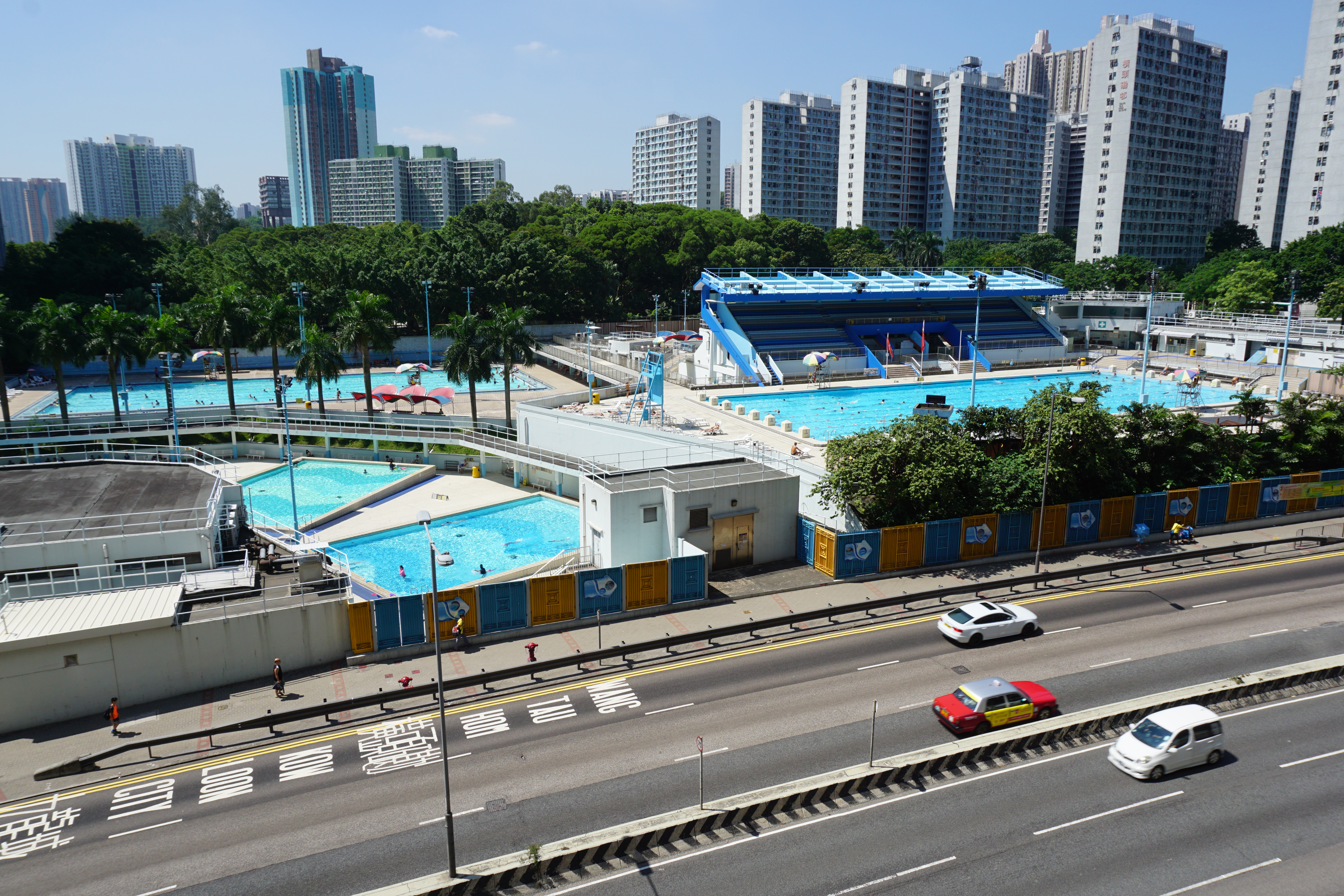 Morse Park Swimming Pool in Lok Fu, Hong Kong.